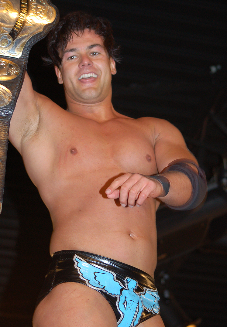 Photo I took of Justin Angel in Tampa, FL on 01/14/2010